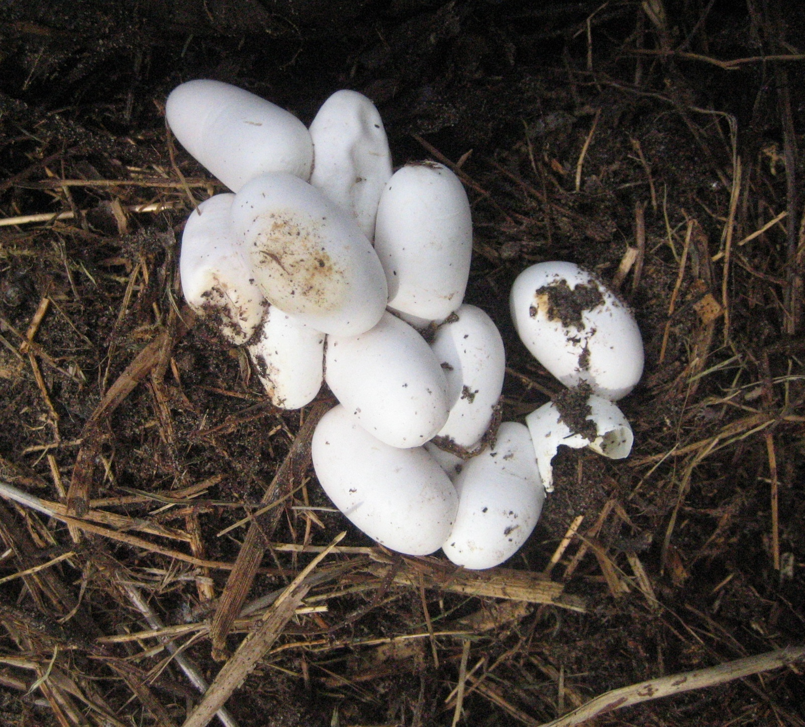 Natrix natrix clutch in a compost heap